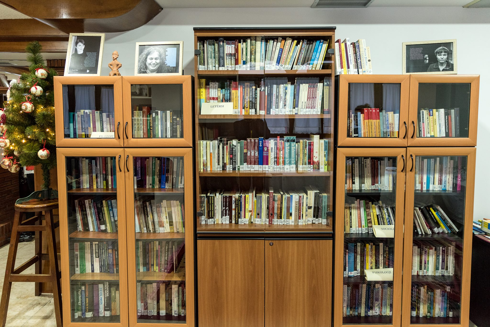 "Biblioteka e Studimeve Gjinore dhe për Familjen", Tiranë